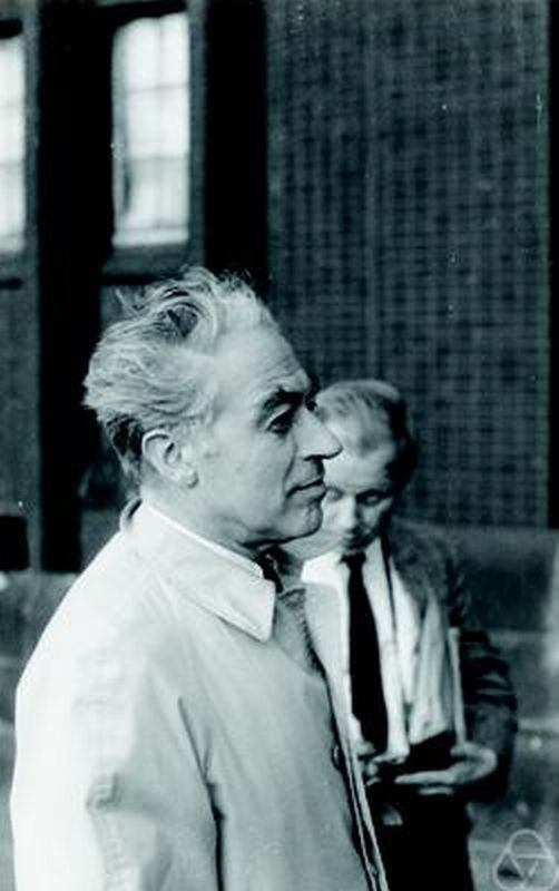 David Gilbarg, Tokyo 1969